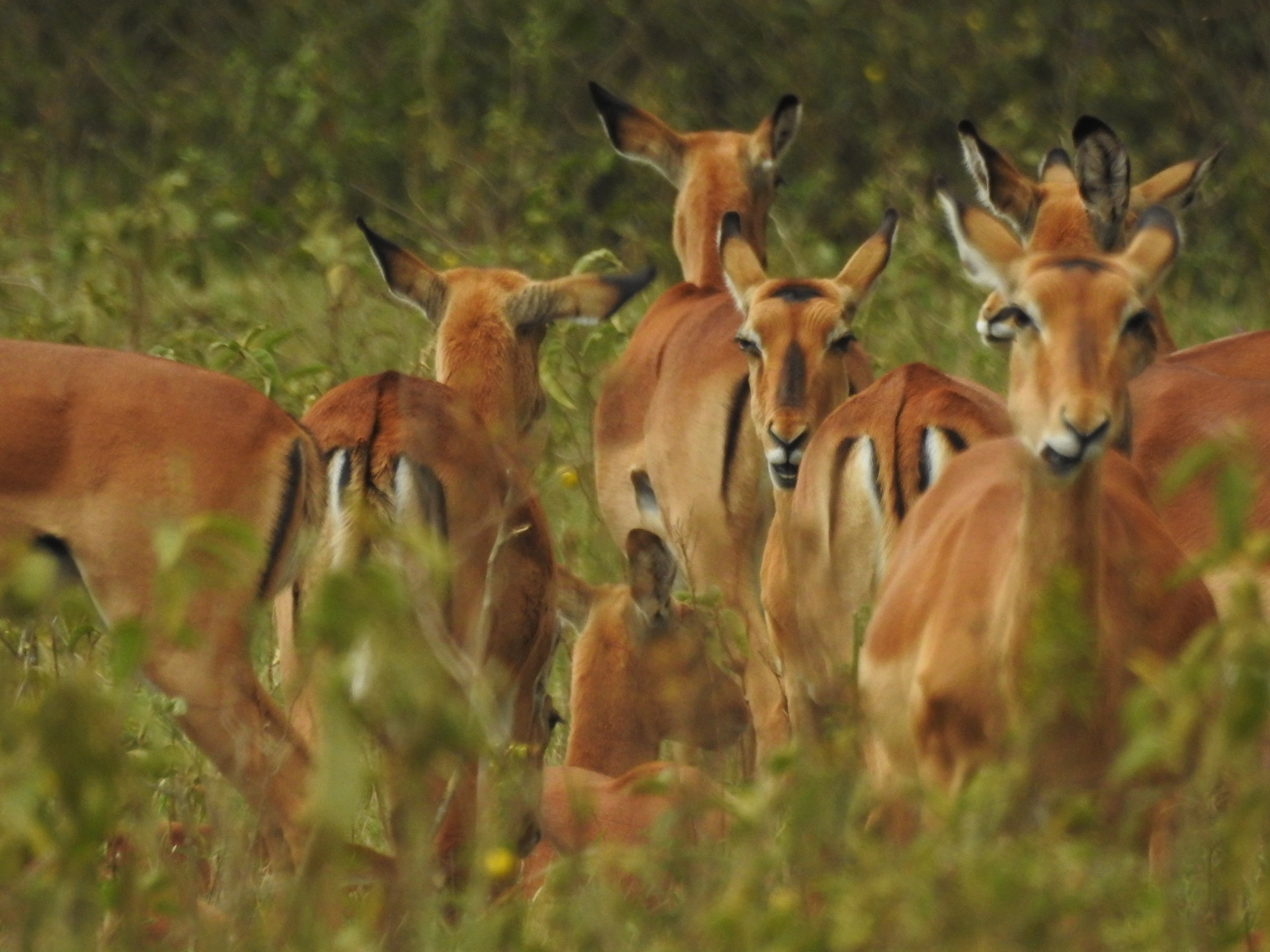 Herd of gazelles.